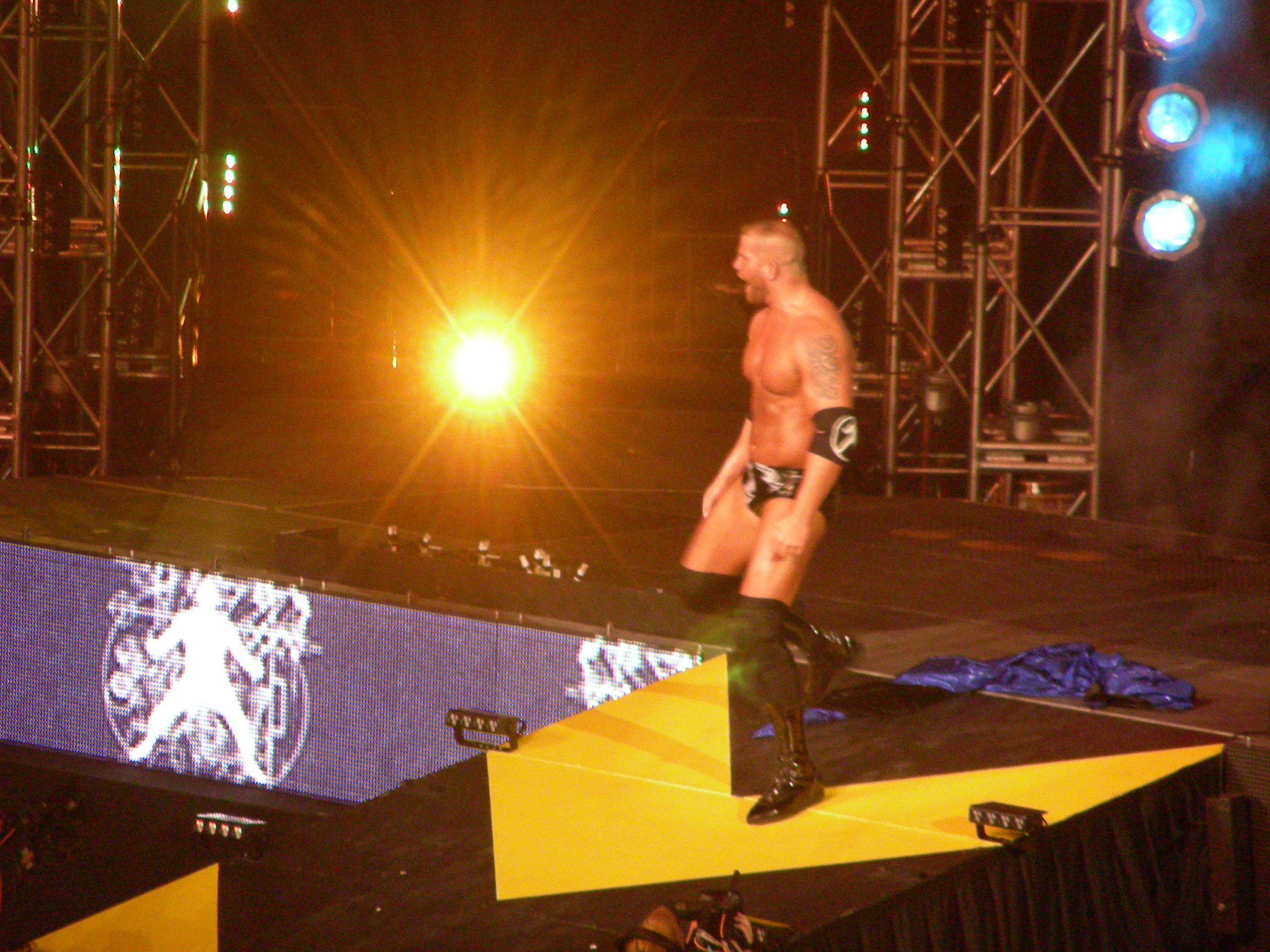 "The Blueprint" Matt Morgan enters!